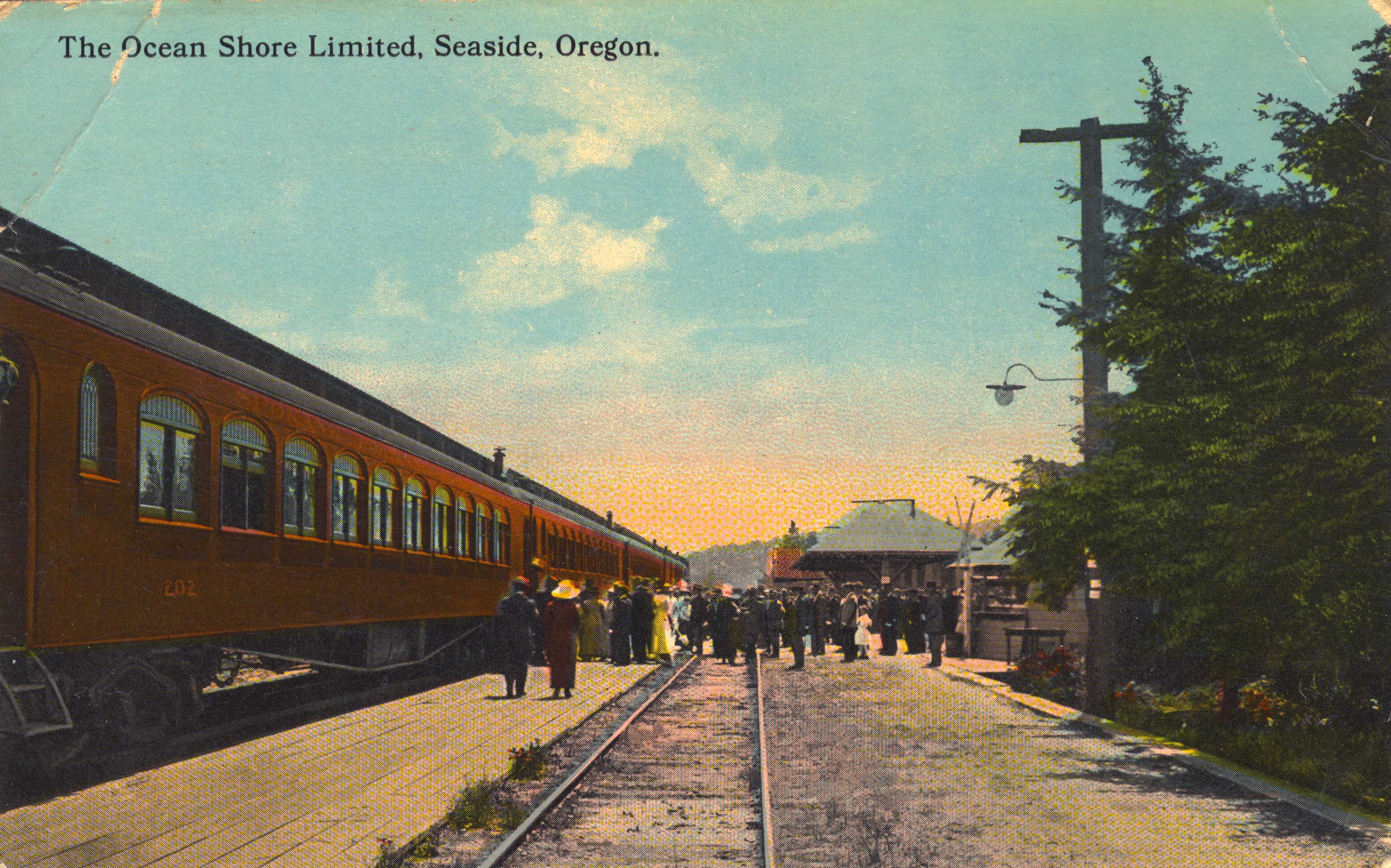 Original Collection: Gerald W. Williams Collection You can find this image by searching for the item number at the Oregon Digital Library. Want more? You can find more digital resources online. We're happy for you to share this digital image within the spirit of The Commons; however, certain restrictions on high quality reproductions of the original physical version may apply. To read more about what “no known restrictions” means, please visit the Special Collections & Archives website, or contact staff at the OSU Special Collections & Archives Research Center for details.